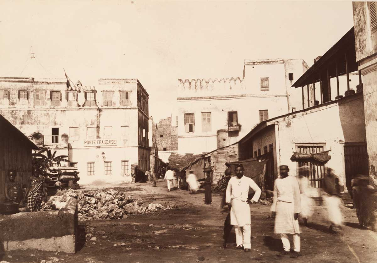 "Poste française". The French Post Office in Malindi (Road), Zanzibar Stone Town. According to the map of Stone Town by Oscar Baumann of 1892, this post office ("Französ. Postamt") was located on the Zanzibar water front, which seems improbable looking at the picture. However, on modern maps of Zanzibar, Malindi Road runs close by. Baumann also locates a French consulate and an office of the "Messagerie Marit." away from the waterfront.